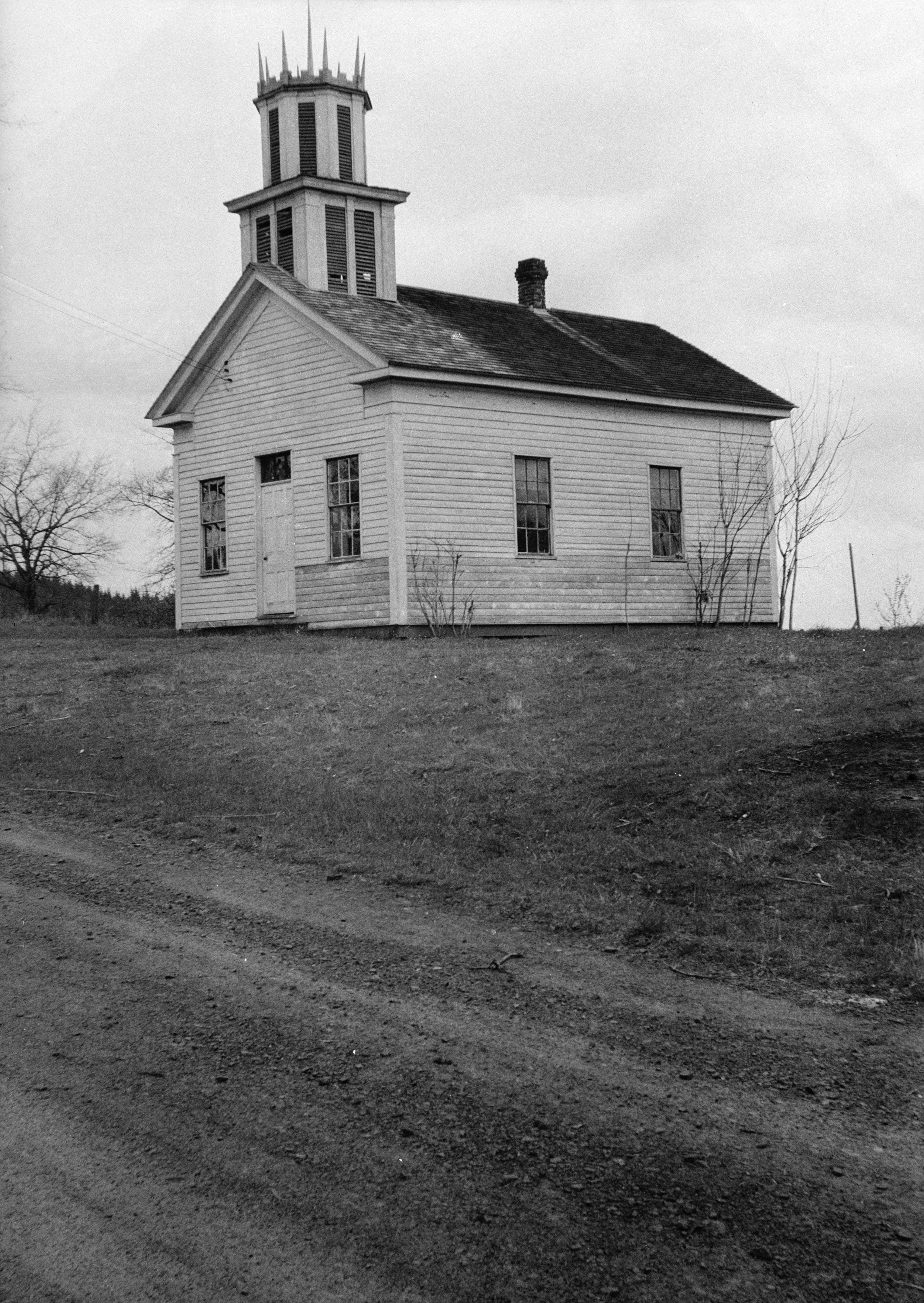 The Claquato Church in Claquato, Washington.